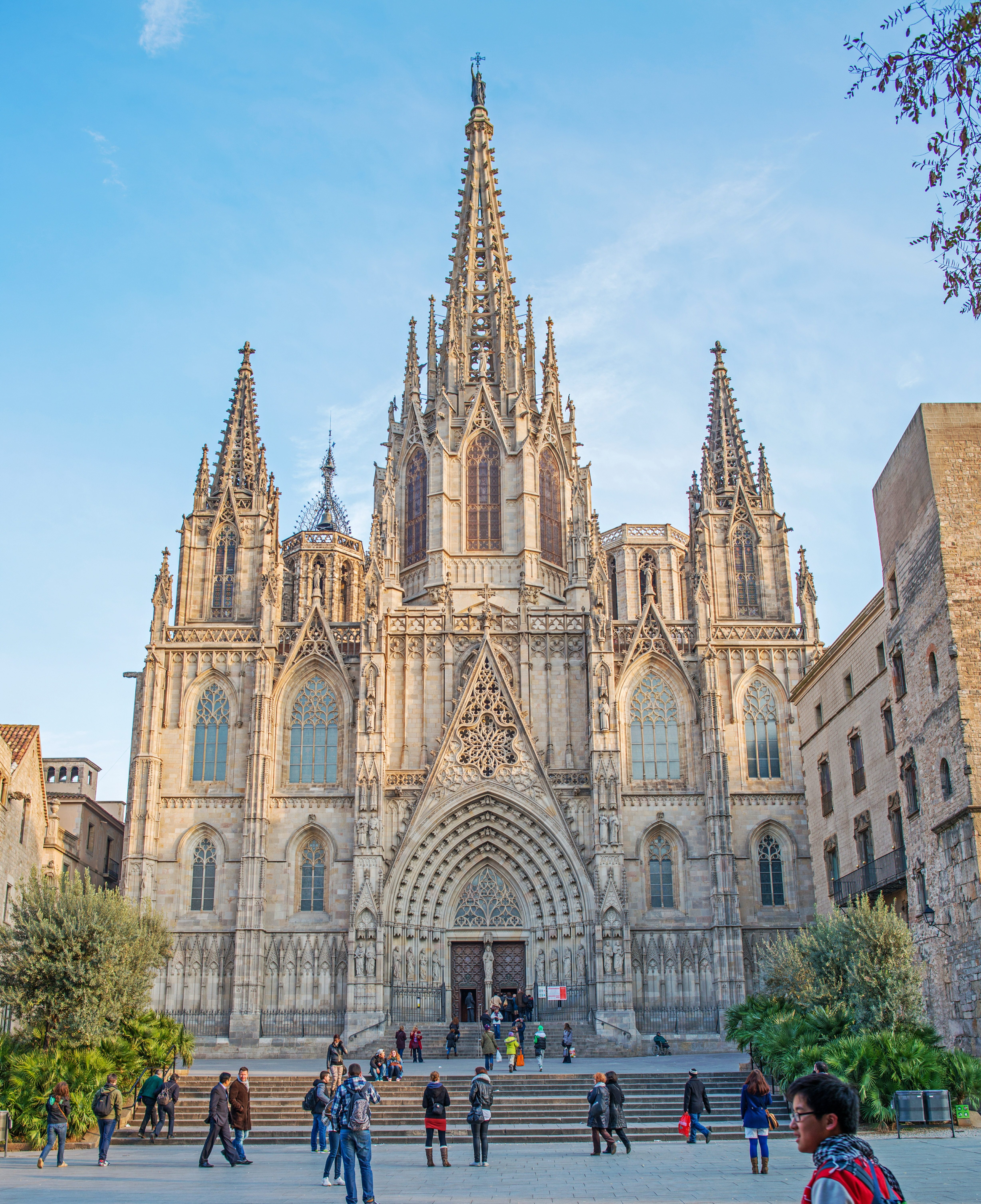 Barcelona Spain February 2013